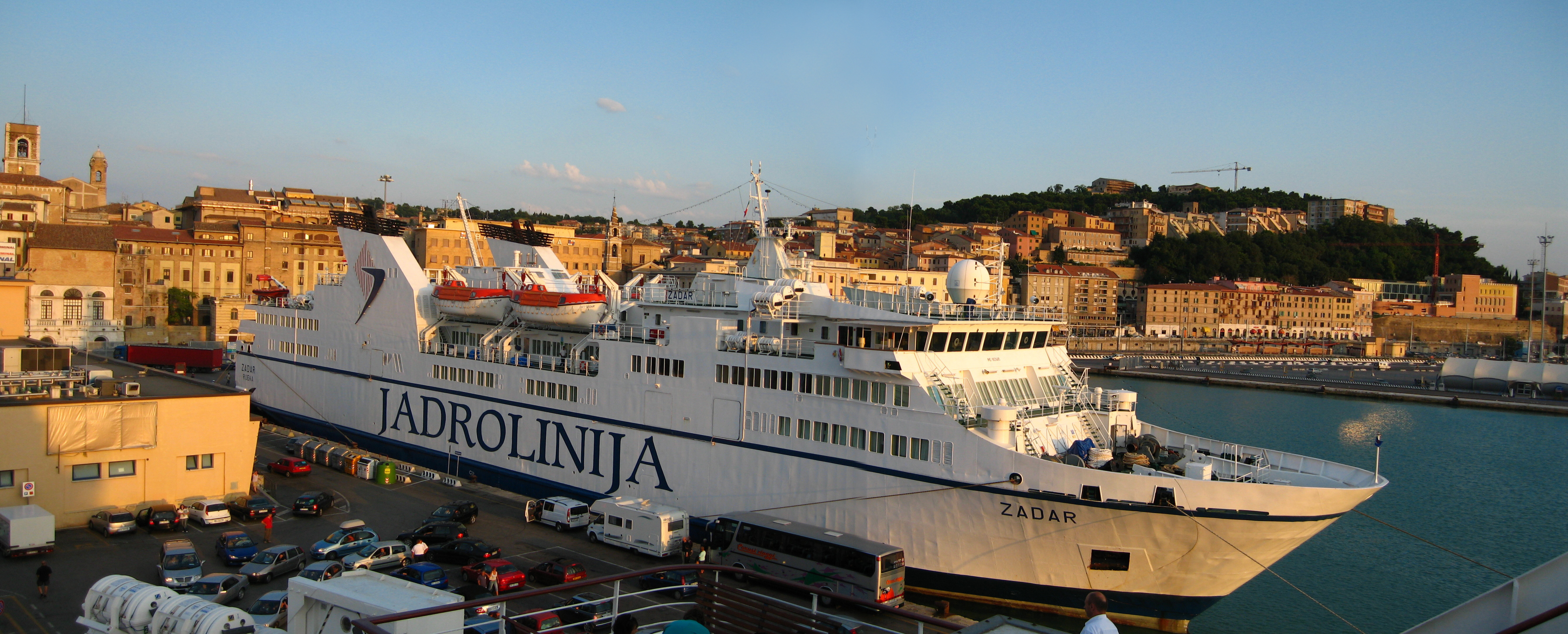 Jadrolinija Ferry "Zadar", Porto di Ancona, Italy